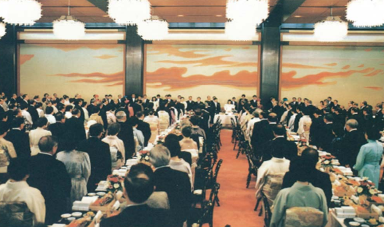 Court banquets to celebrate the enthronement and receive the congratulations of the guests.